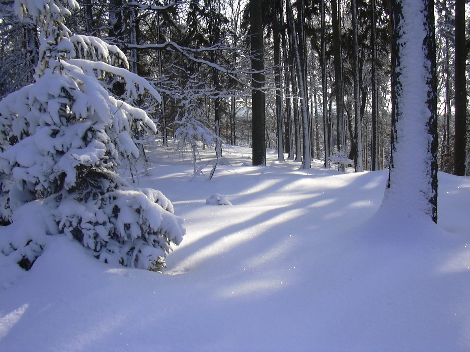 Typical forest in the Brdy hills, Czech Republic